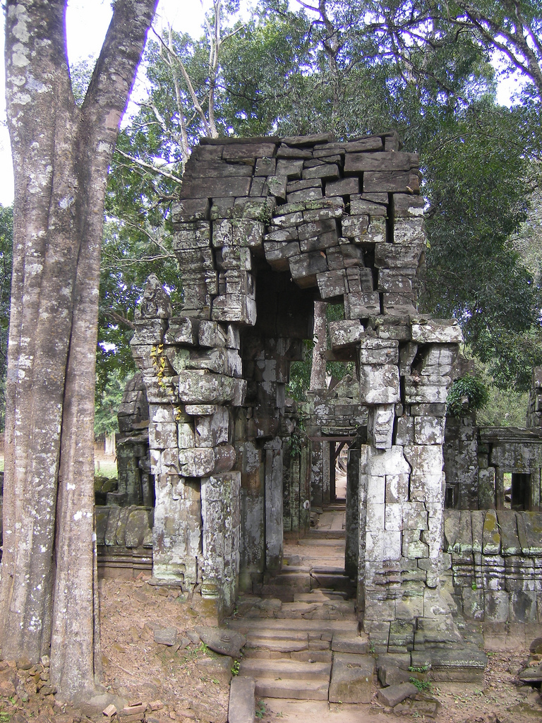 A gate at Koh Ker, Cambodia, the temporary capital city of the Khmer Empire between 928 to 944 BC under king Jayavarman IV.